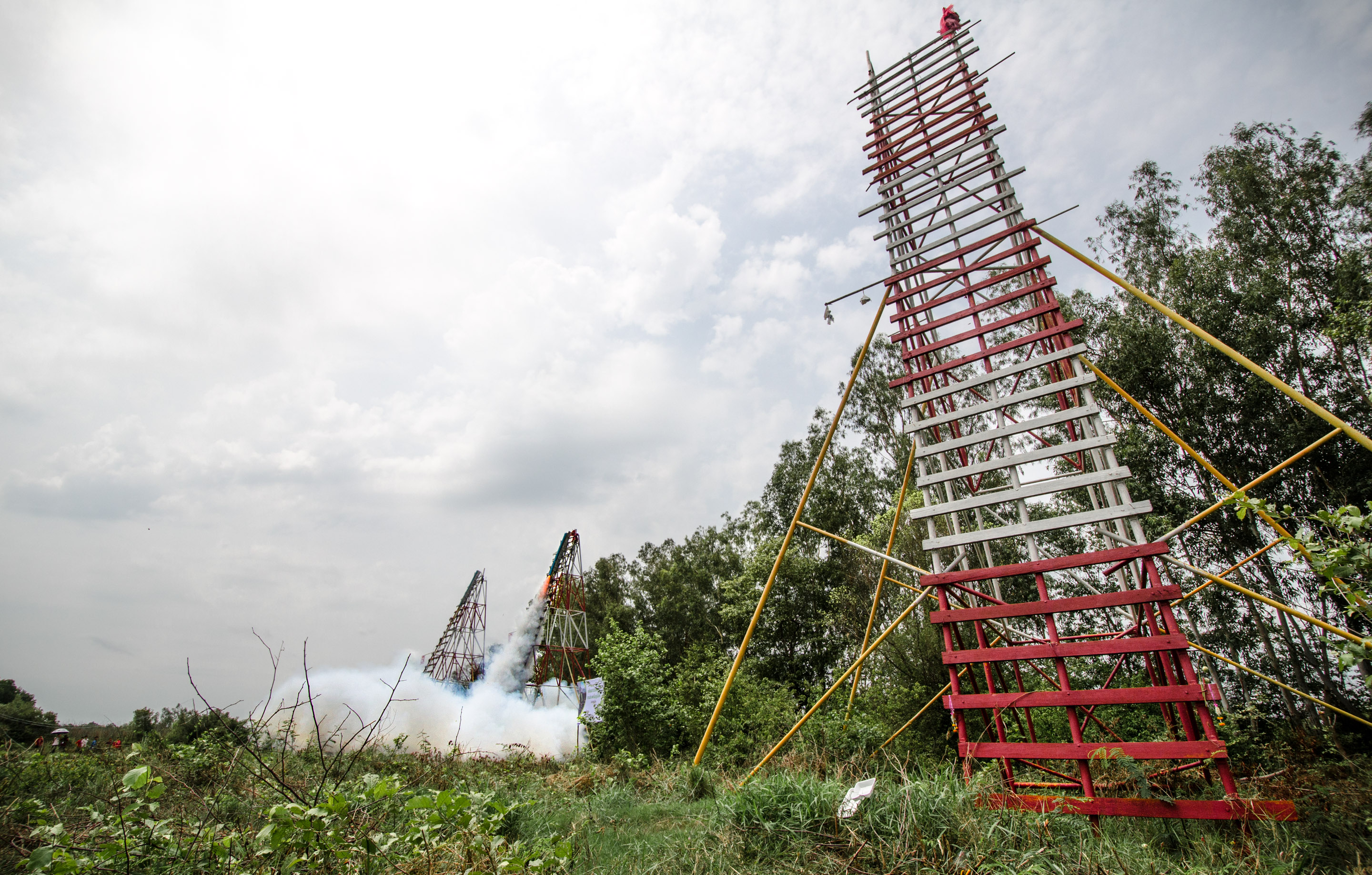 The rockets were launched on Sunday, 12 May, 2013; the third, and final day of the festival.